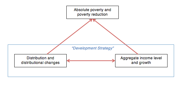 A graph of the poverty-growth-inequality triangle theory - a theory which was originally was created by François Bourguignon.